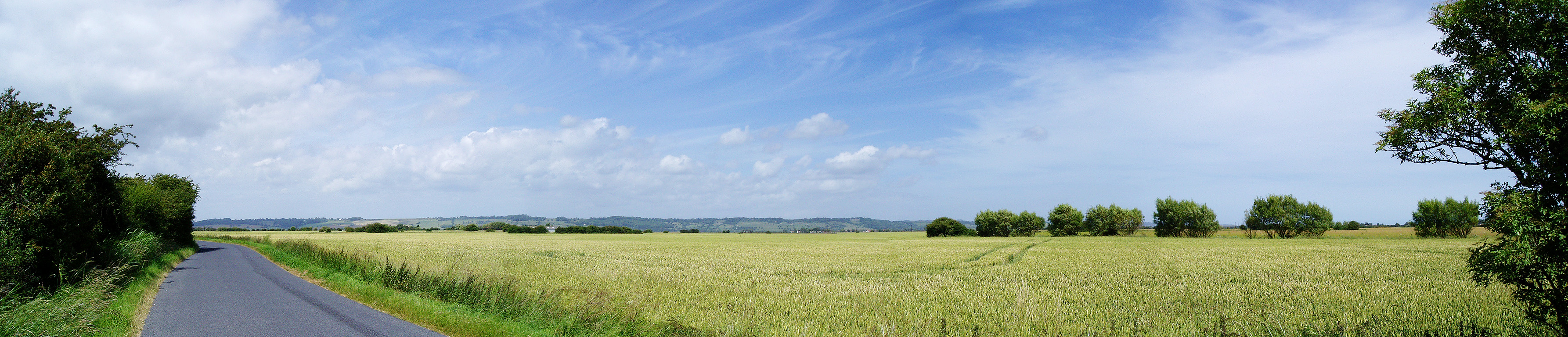 A panorama of Romney Marsh from Orgarswick Lane Dymchurch looking towards the hills.